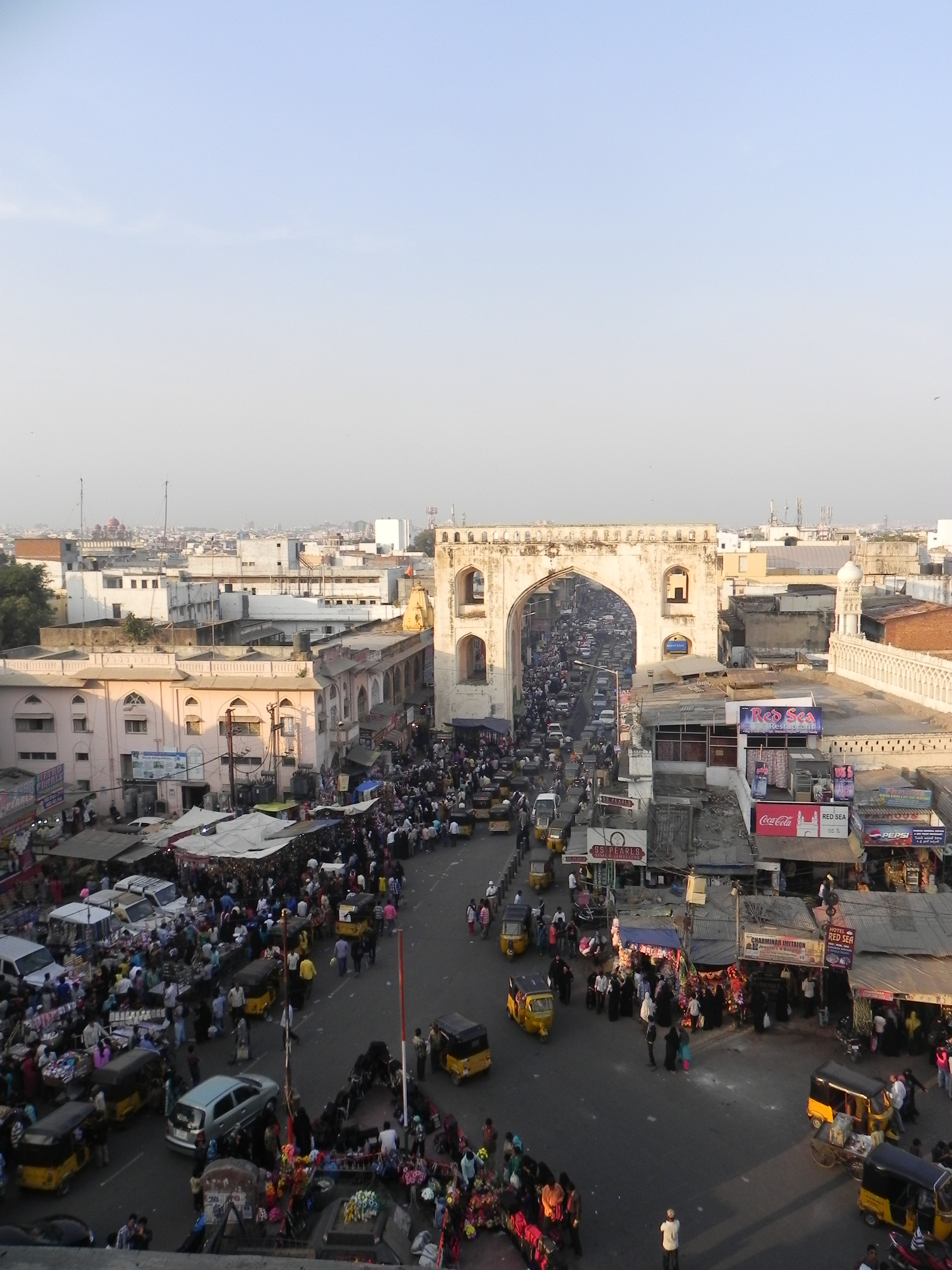 Charminar